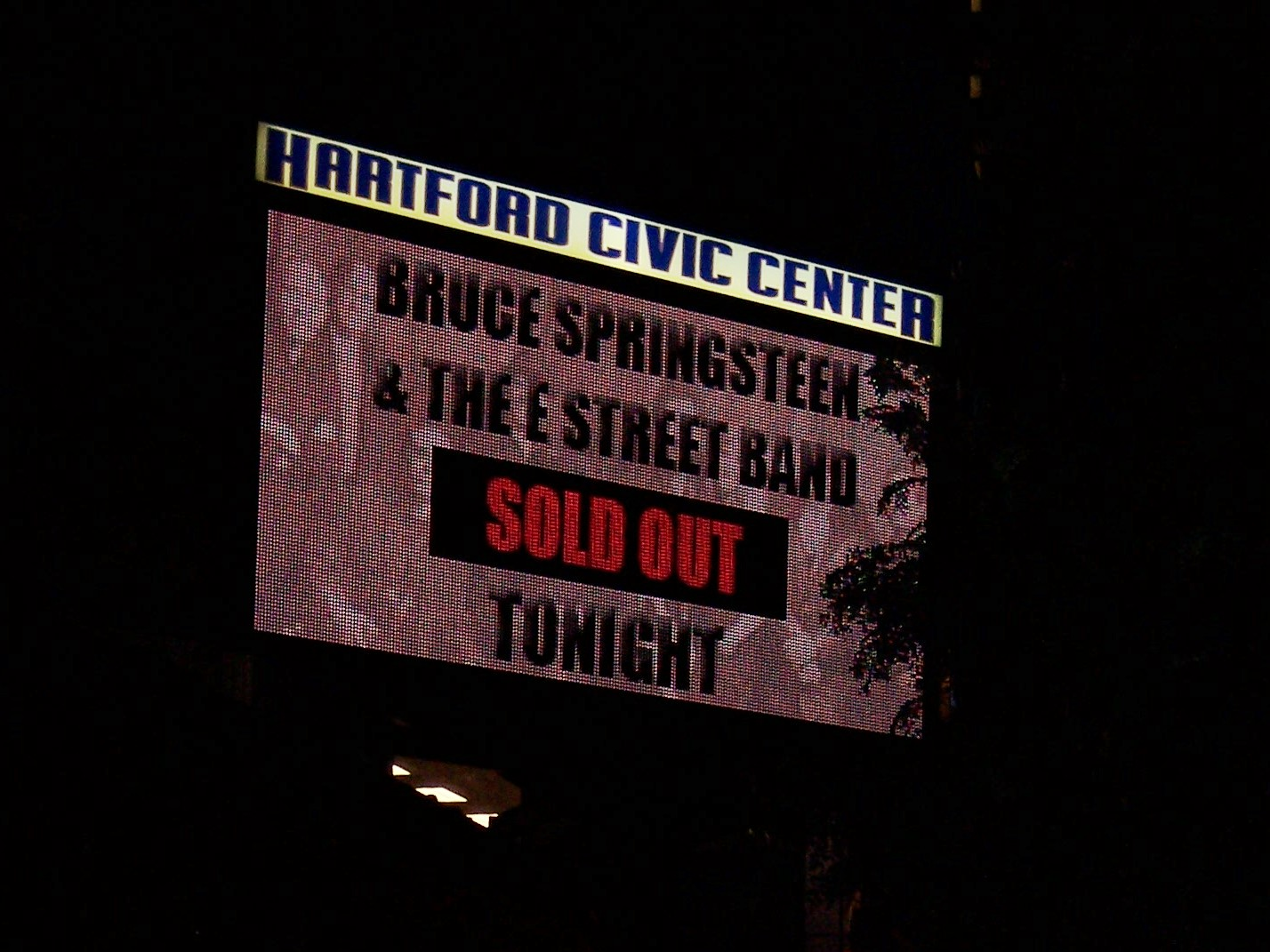 Hartford Civic Center marquee for Bruce concert. Taken by me, 2 Oct 2007.